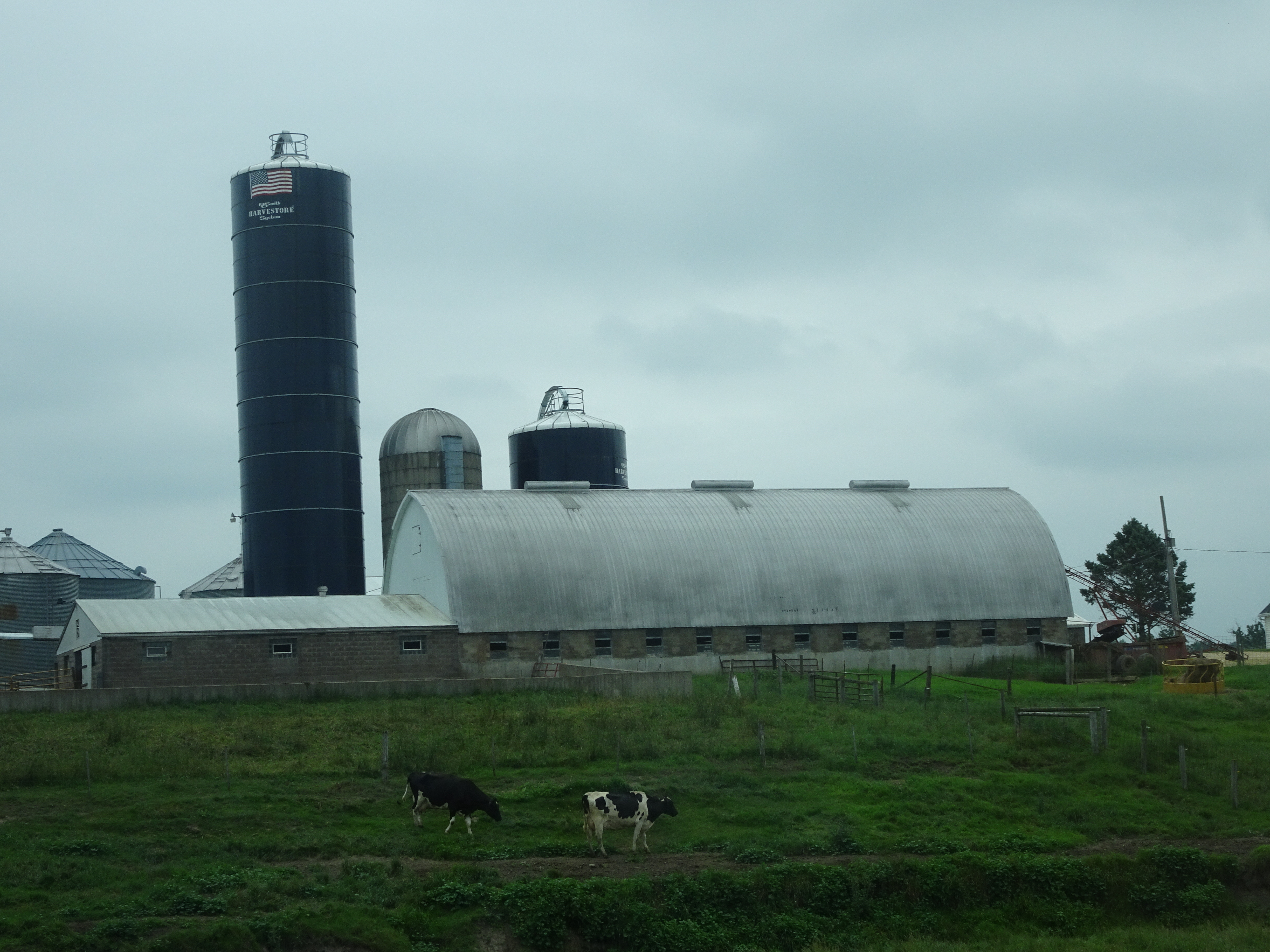 Dairy Farm with Three Silos